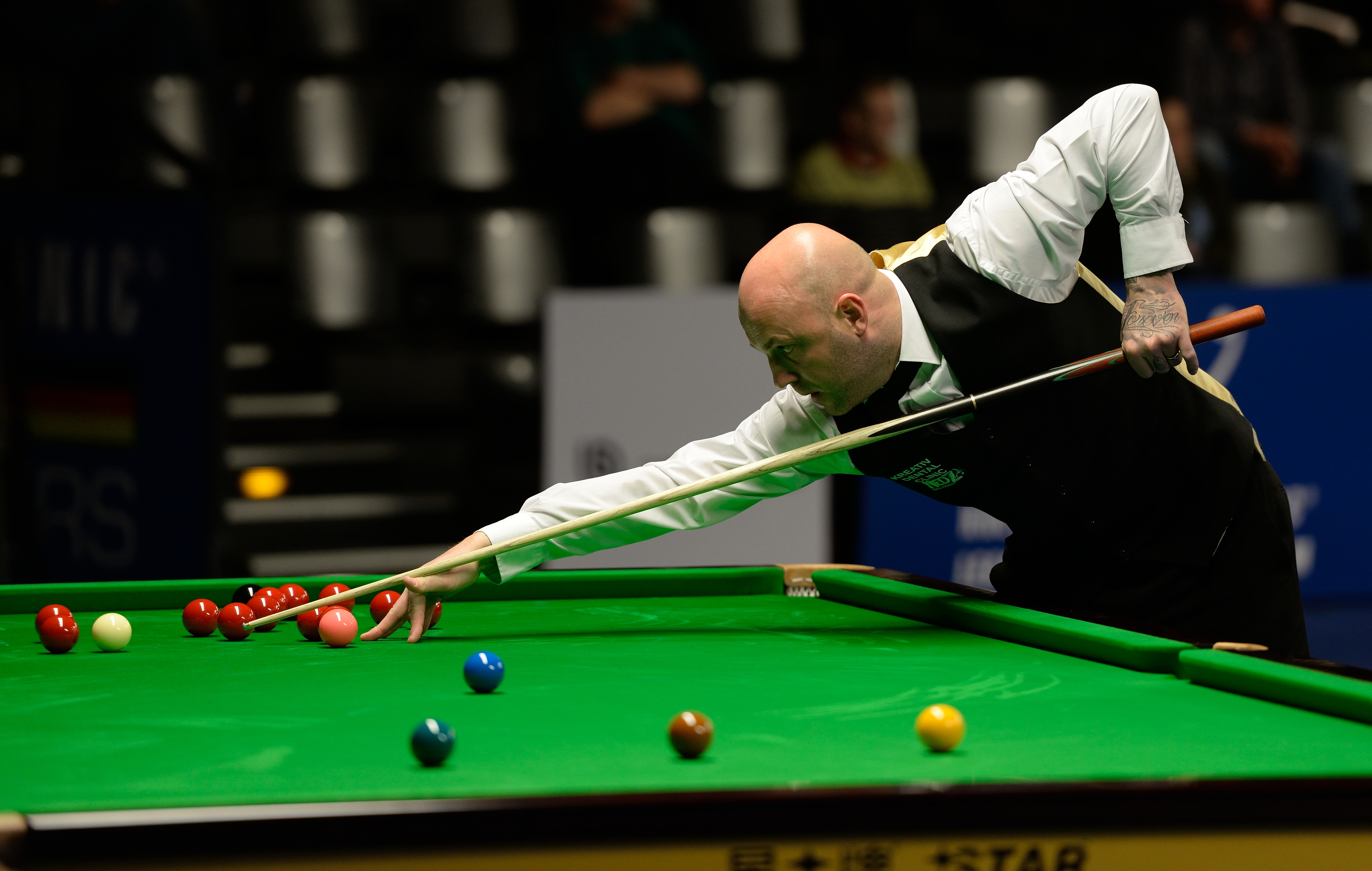 Picture taken in Berlin during the Snooker German Masters in 2015. Mark King.